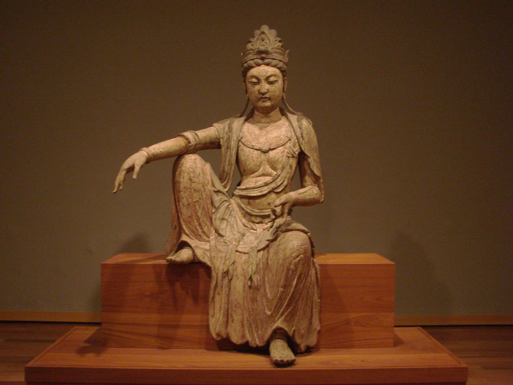 Guanyin China, Northern Song Dynasty, ca. 1025 painted wood Purchase, 1927 (2400) Wikipedia Loves Art at the Honolulu Academy of Arts This photo of item # 2400 at the Honolulu Academy of Arts was contributed under the team name "wiki_wiki_whaaat" as part of the Wikipedia Loves Art project in February 2009. Honolulu Academy of Arts The original photograph on Flickr was taken by global-hawaii—please add a comment to the original Flickr page whenever a use has been made on Wikipedia or another project. Project galleries on Flickr: this institution, this team